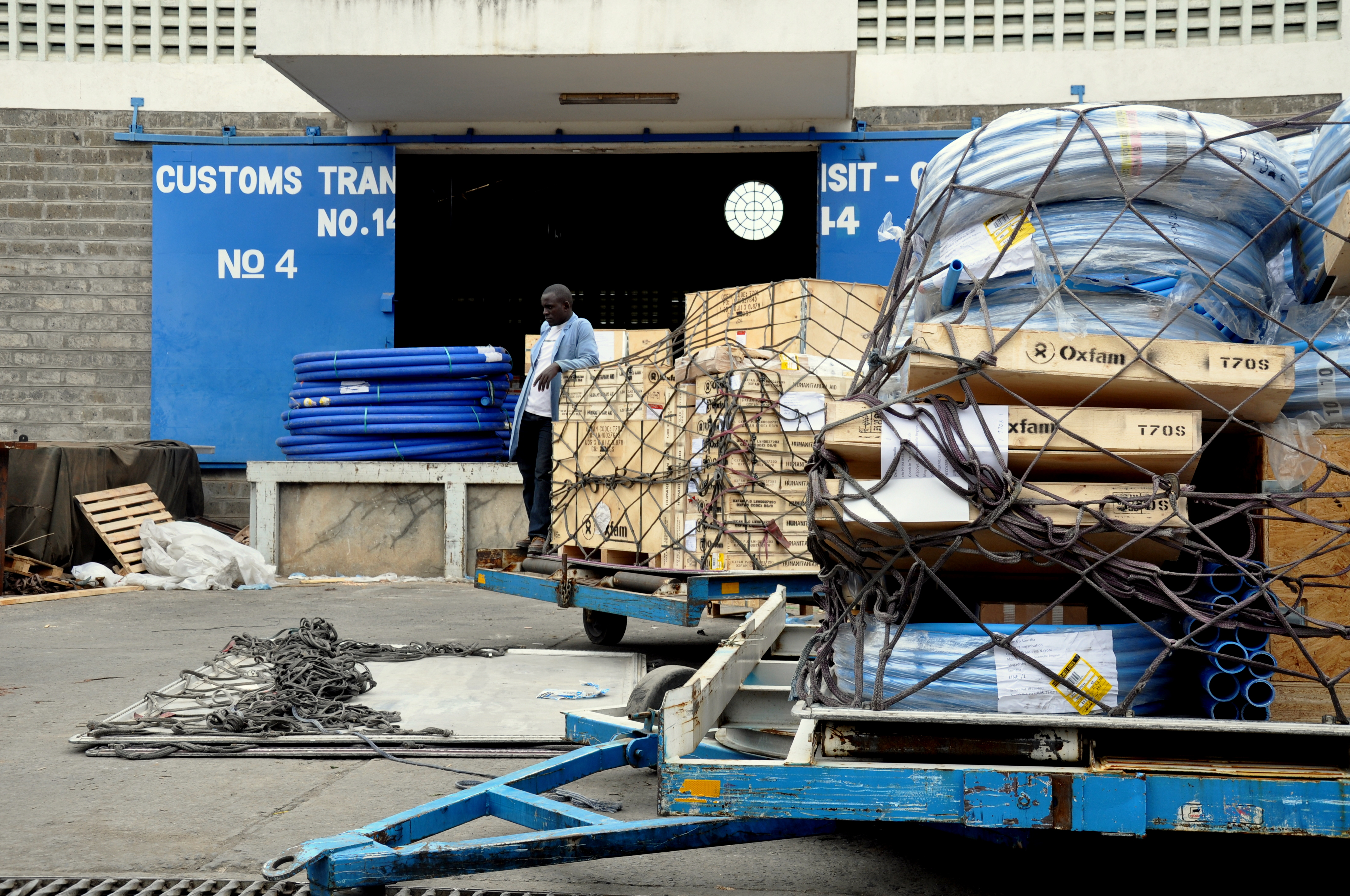 Tonnes of aid is packed up outside the Siginon warehouse in Nairobi Photo: Alun McDonald/Oxfam